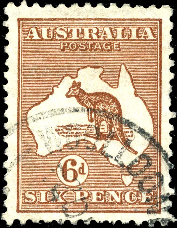 Australia 6d kangaroo&map stamp of 1929, SG#107